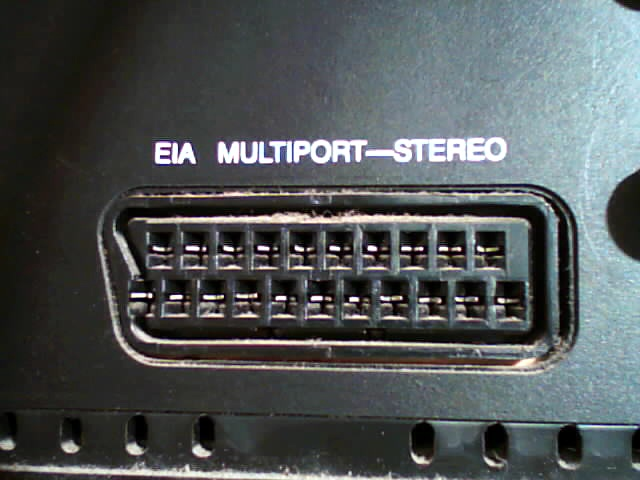 RCA Dimensia EIA Multiport interface